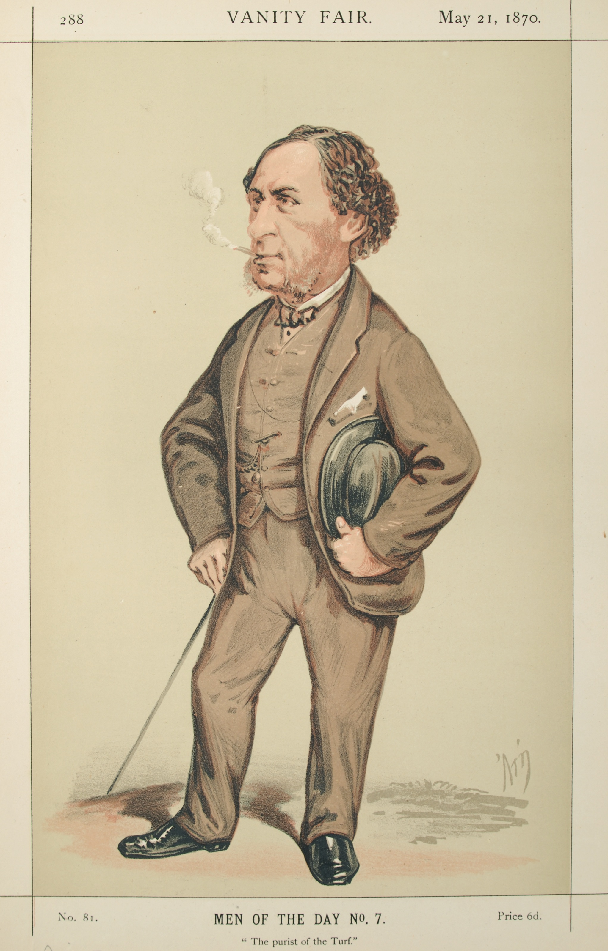 Men of the Day No.7: Caricature of Sir Joseph Hawley. Caption reads: "The purist of the Turf."